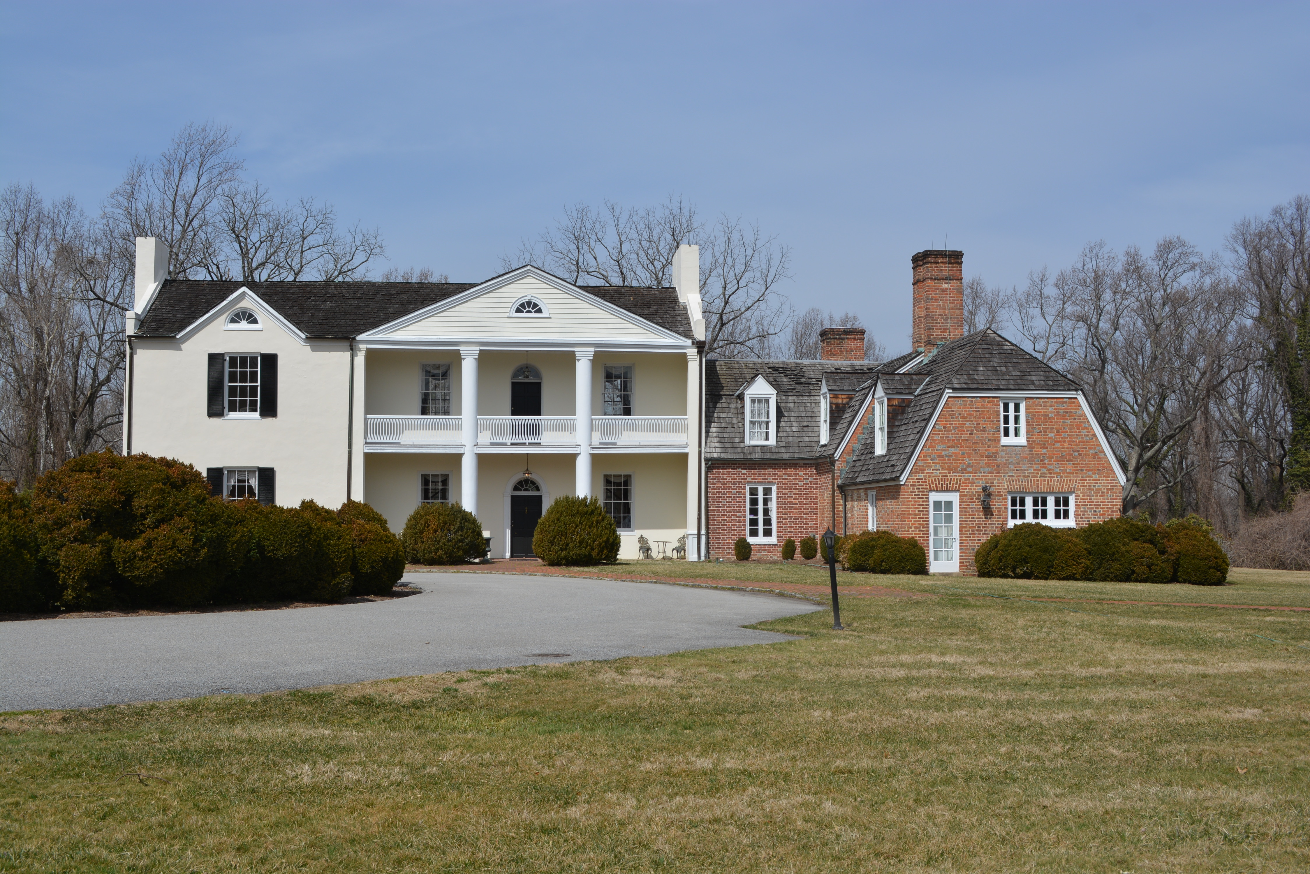 An image of Mount Airy Mansion, located in Rosaryville State Park.